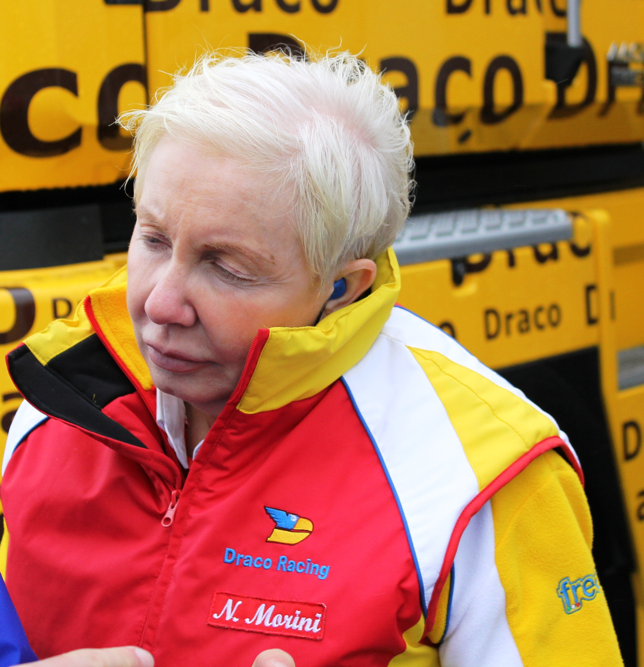 Nadia Morini (Team Manager and co-founder of Draco Racing) at the 2011 Nürburgring World series by Renault round